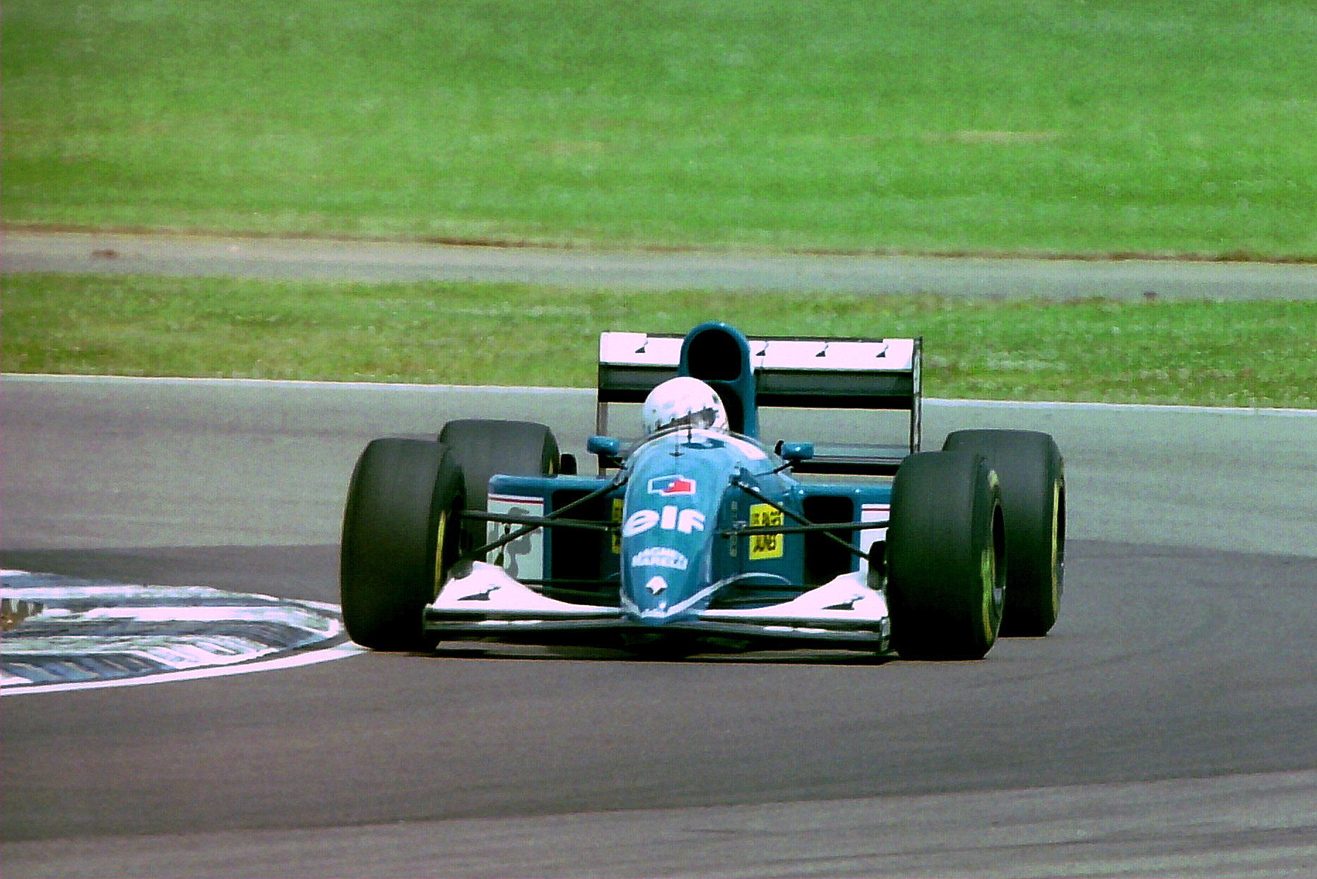 Martin Brundle - Ligier JS39 during practice for the 1993 British Grand Prix